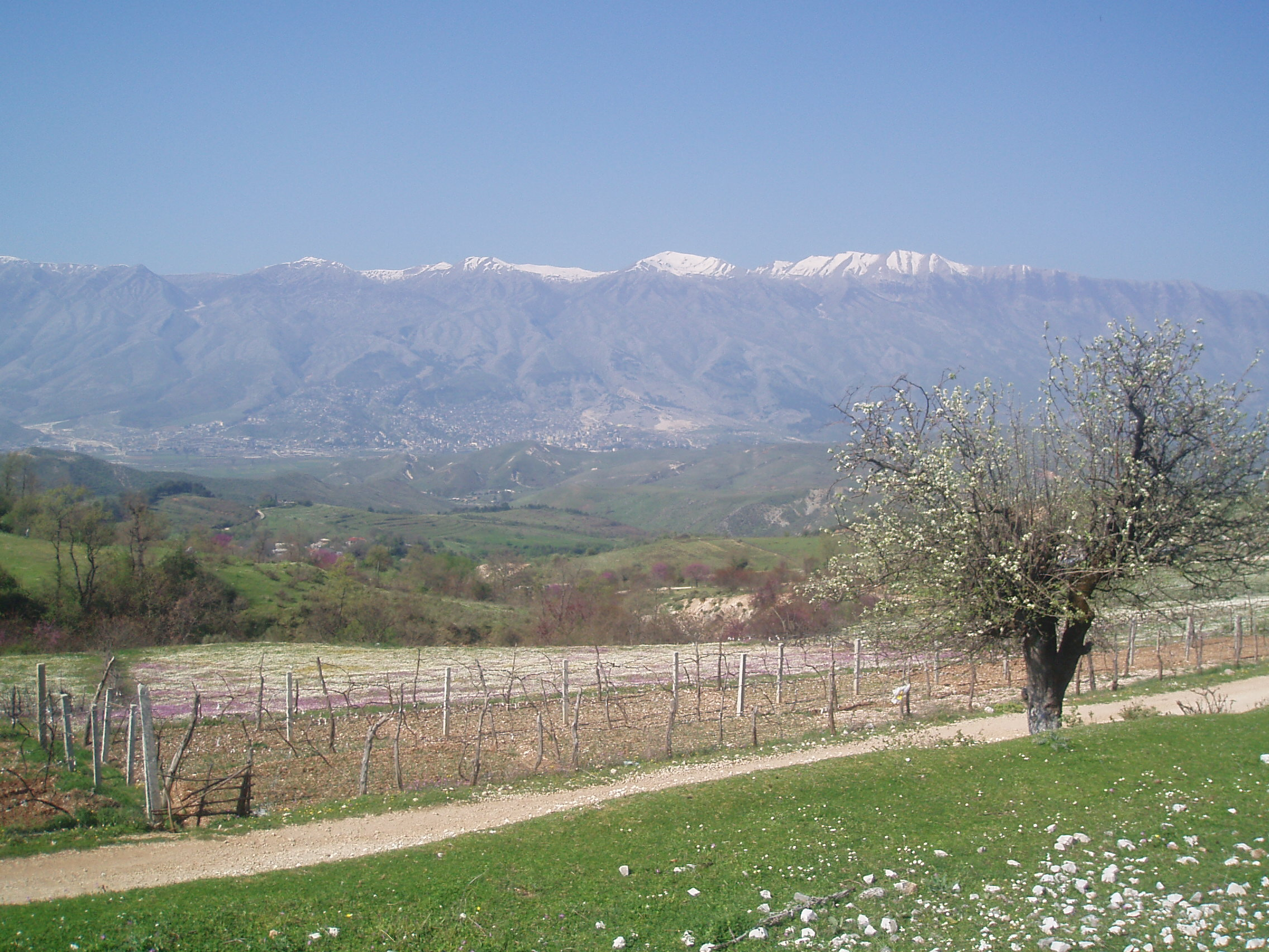 View of Gjirokastër of the other side of the Drinos valley, Southern Albania